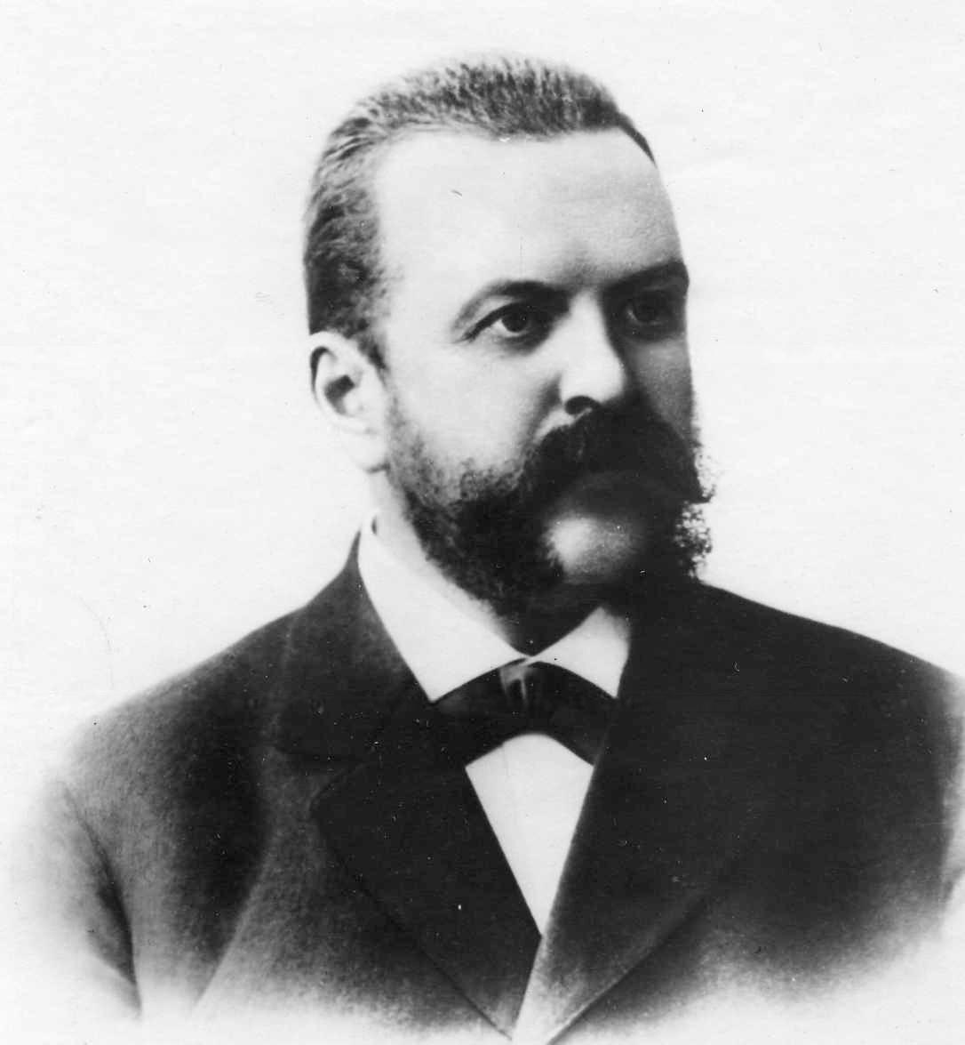 Minister of Internal Affairs A. G. Bulygin (portrait).